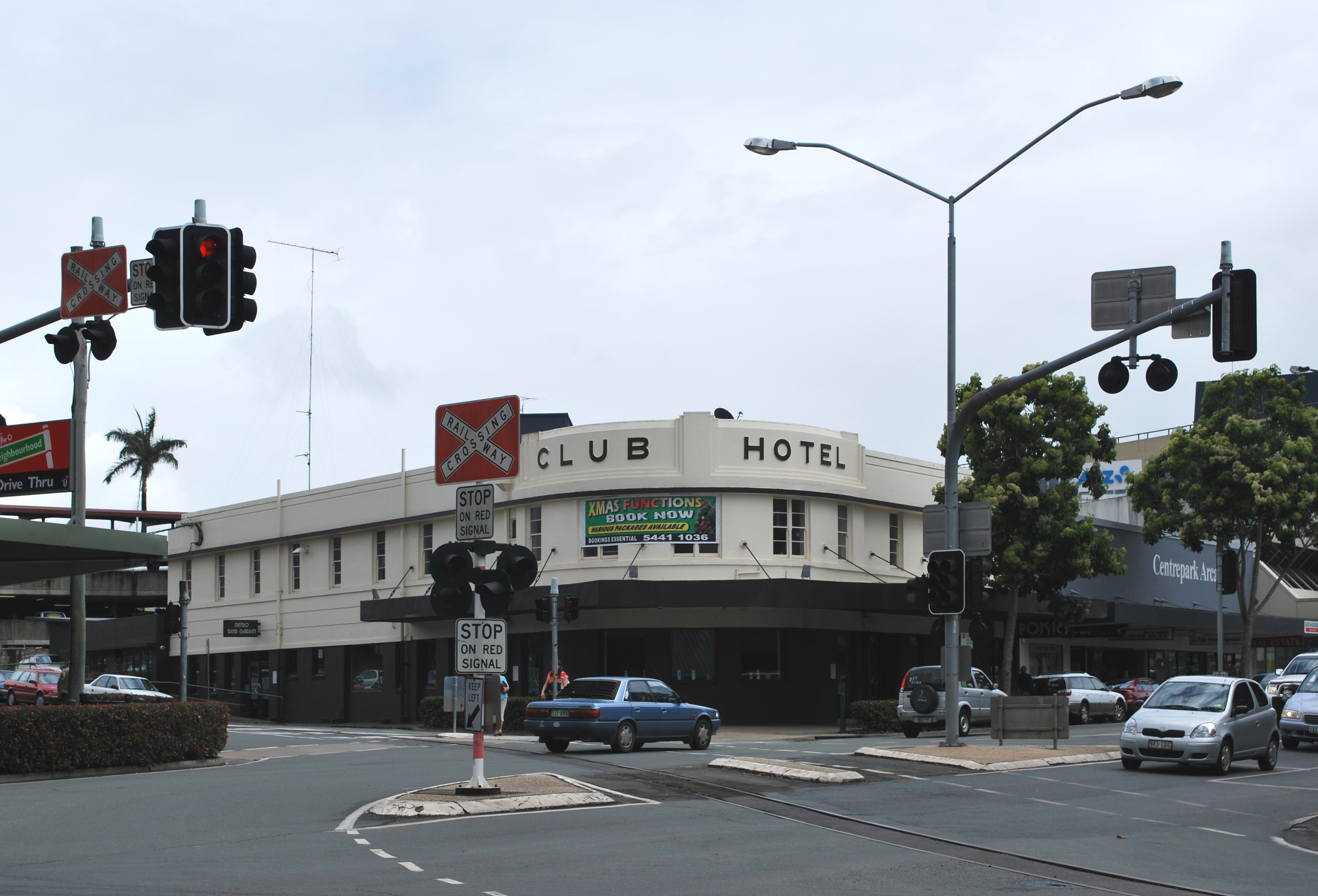 Rail lines running through the middle of Nambour, Queensland